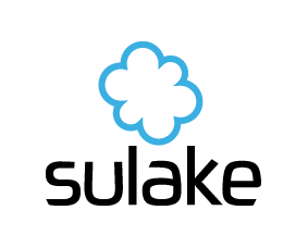 This is the Sulake's Logo